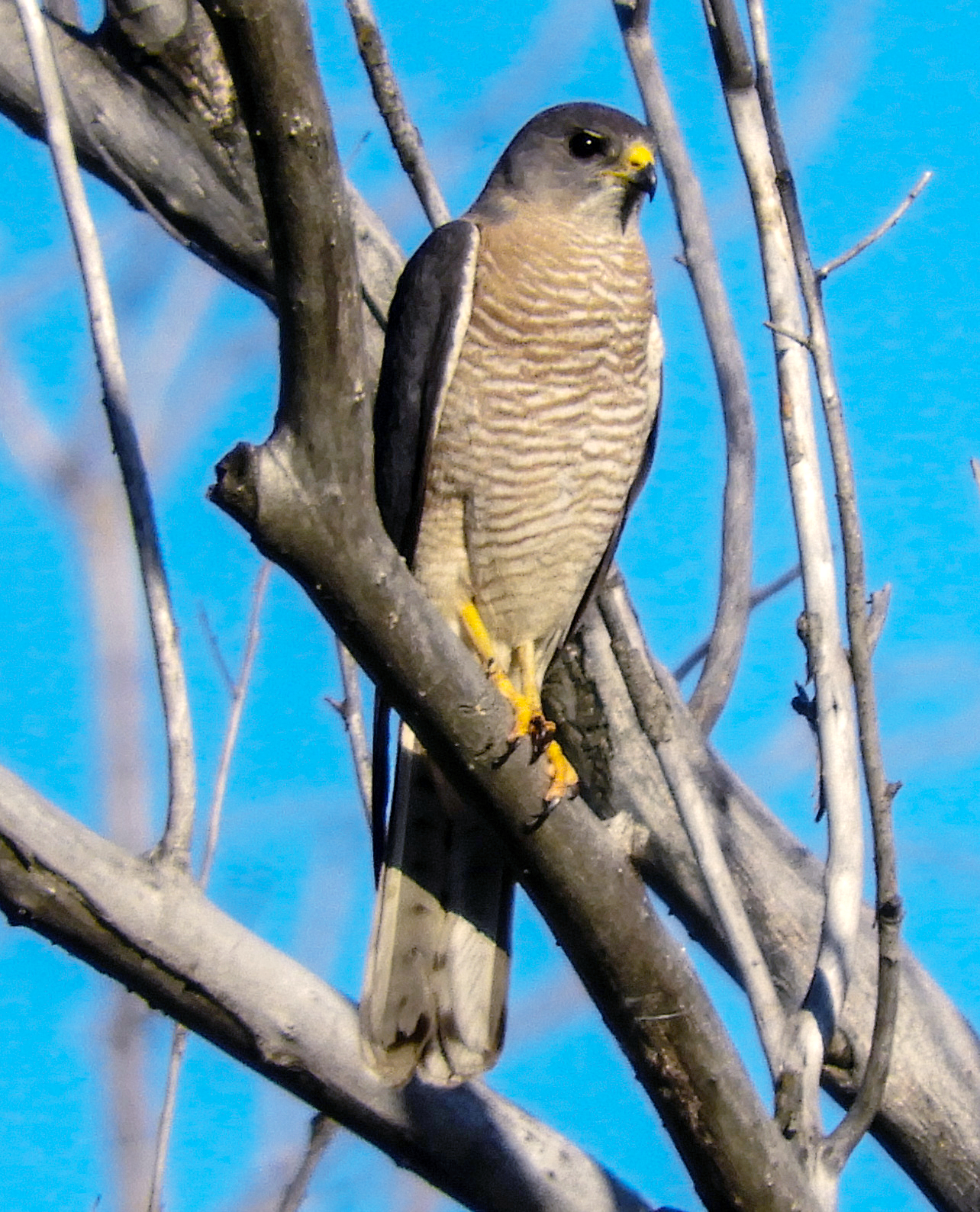 Male of Levant sparrowhawk Accipiter brevipes